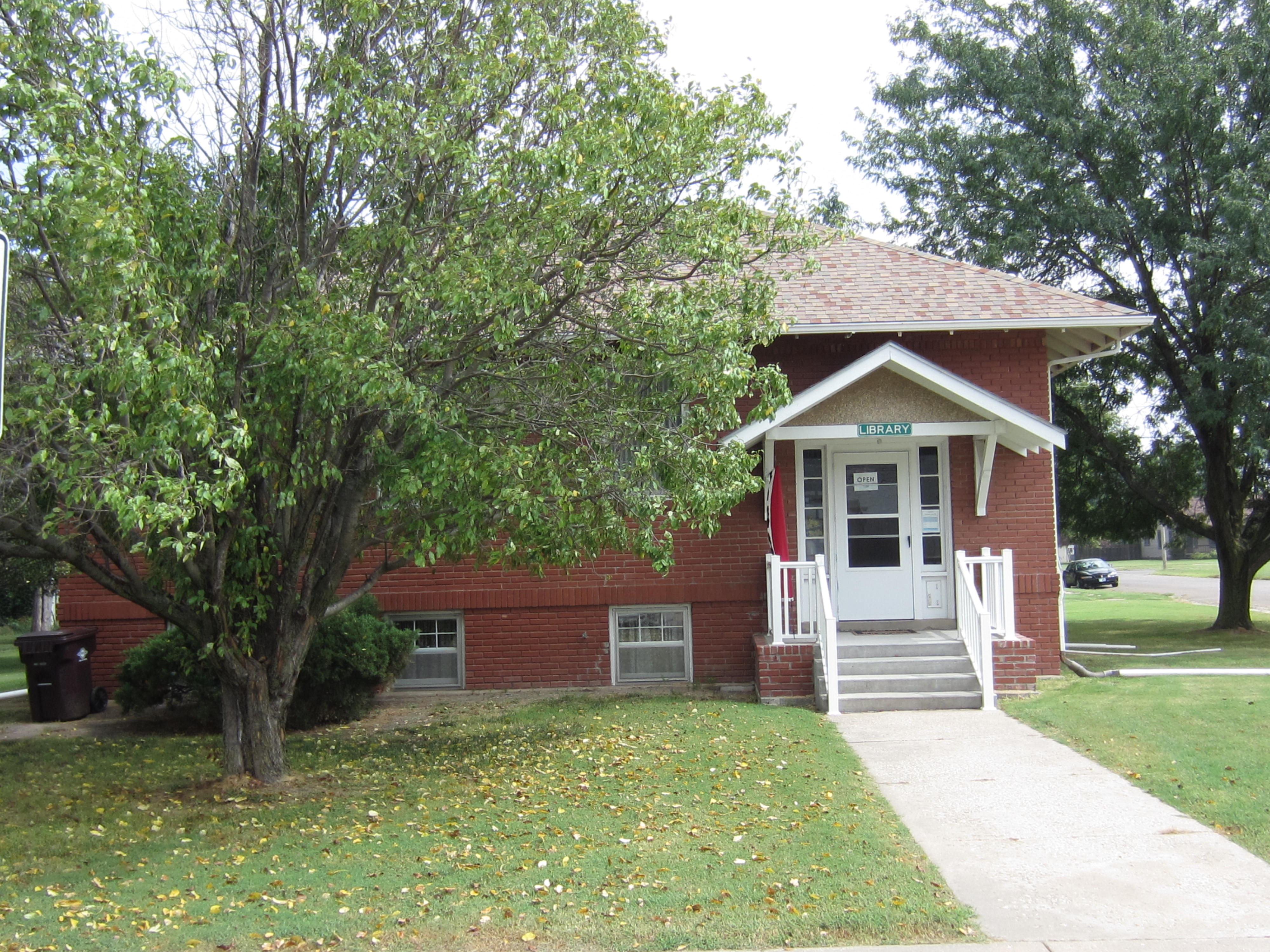 Public Library of Canton, KS funded by Andrew Carnegie